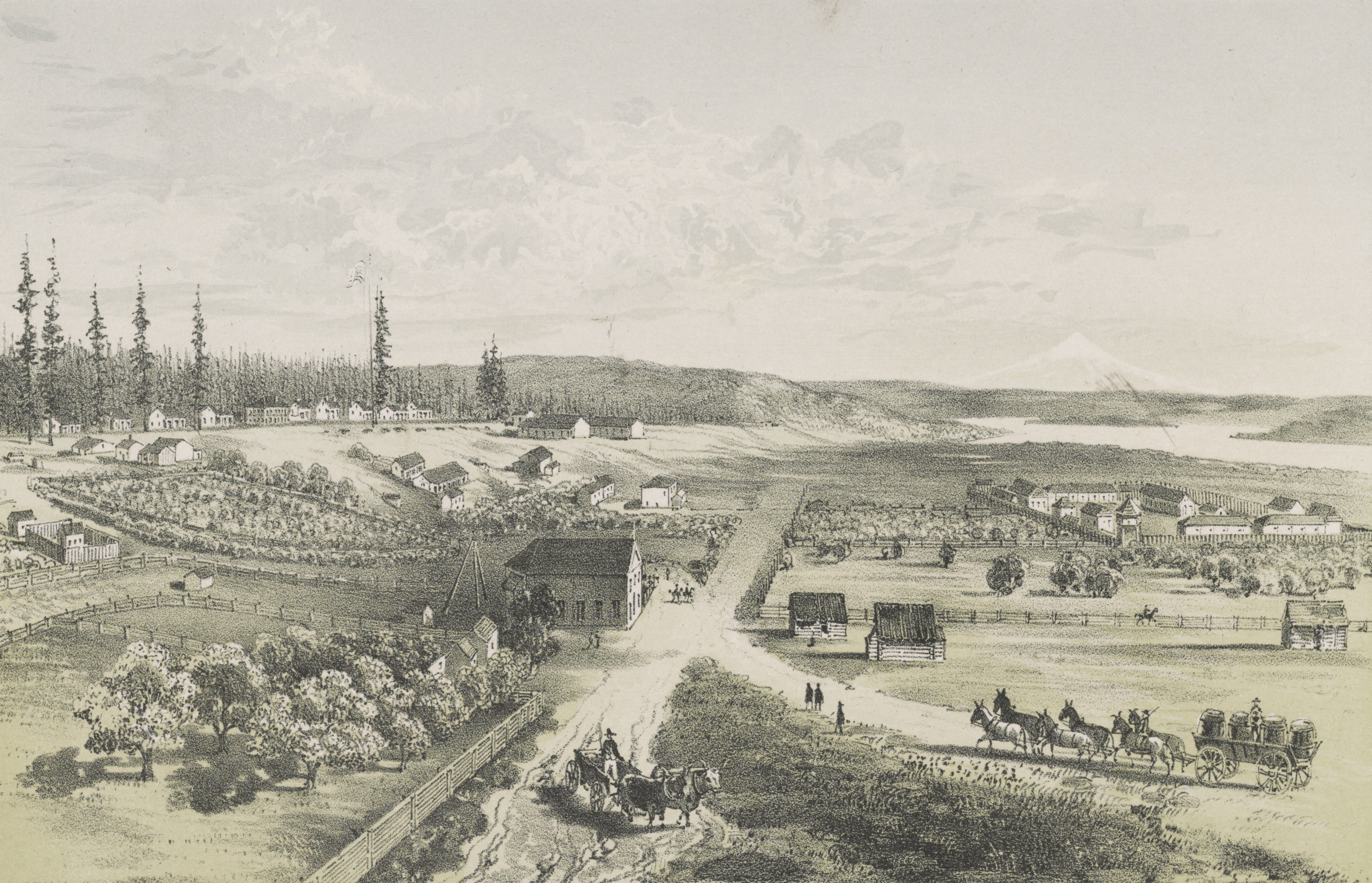 Title: Fort Vancouver, W.T. / G. Sohon, del. ; Sarony Major & Knapp, Liths. Abstract/medium: 1 print : lithograph, color.